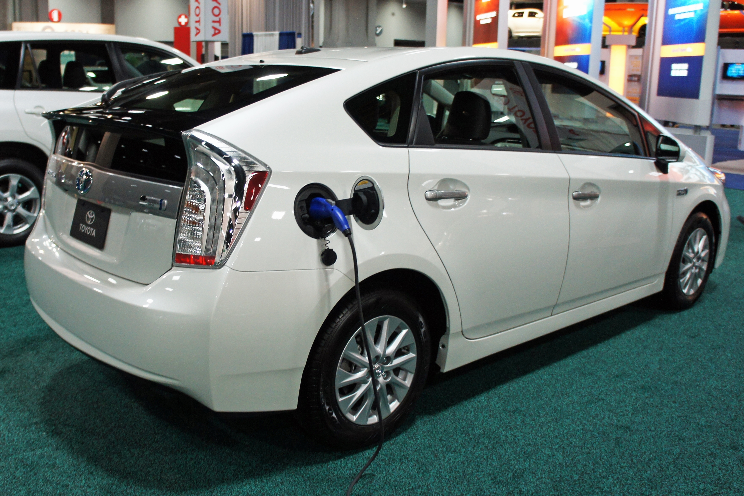 2012 Toyota Prius Plug-in Hybrid at the 2012 Washington Auto Show, District of Columbia.